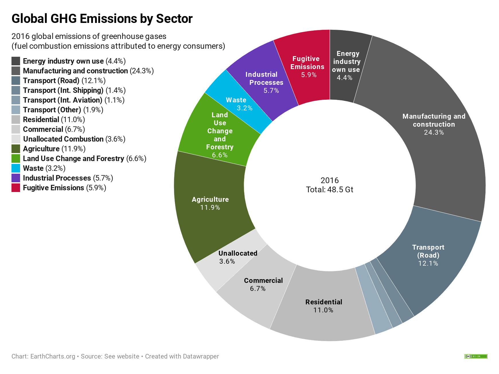 Donut chart showing 2016 global emissions of greenhouse gases by sector (fuel combustion emissions attributed to energy consumers).